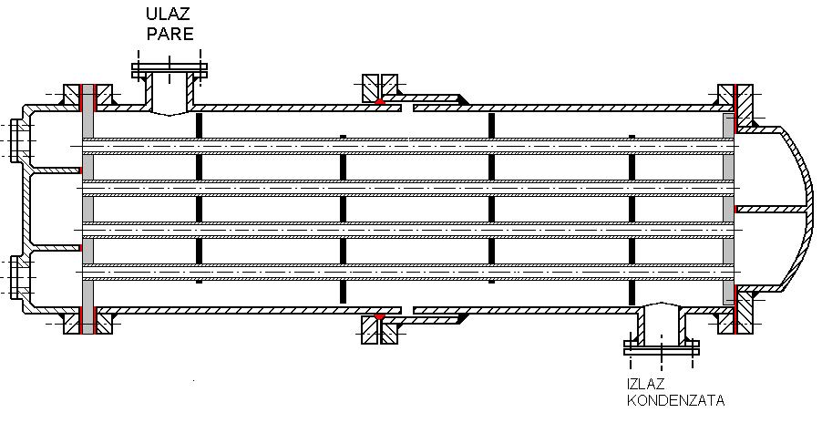 design of shell and tube steam condenser